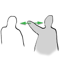 An example on how to take a back-to-back dualphoto: between two of us.